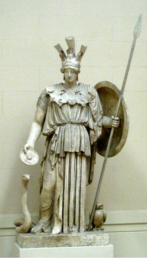 Plaster cast-reconstruction of Athena statue based on the Roman copy after Phidias' Parthenos. That Roman copy was in the Medici collection, now head is in Paris (school of arts) and Vienna(kunsthistorischen museum). Cast in Moscow.